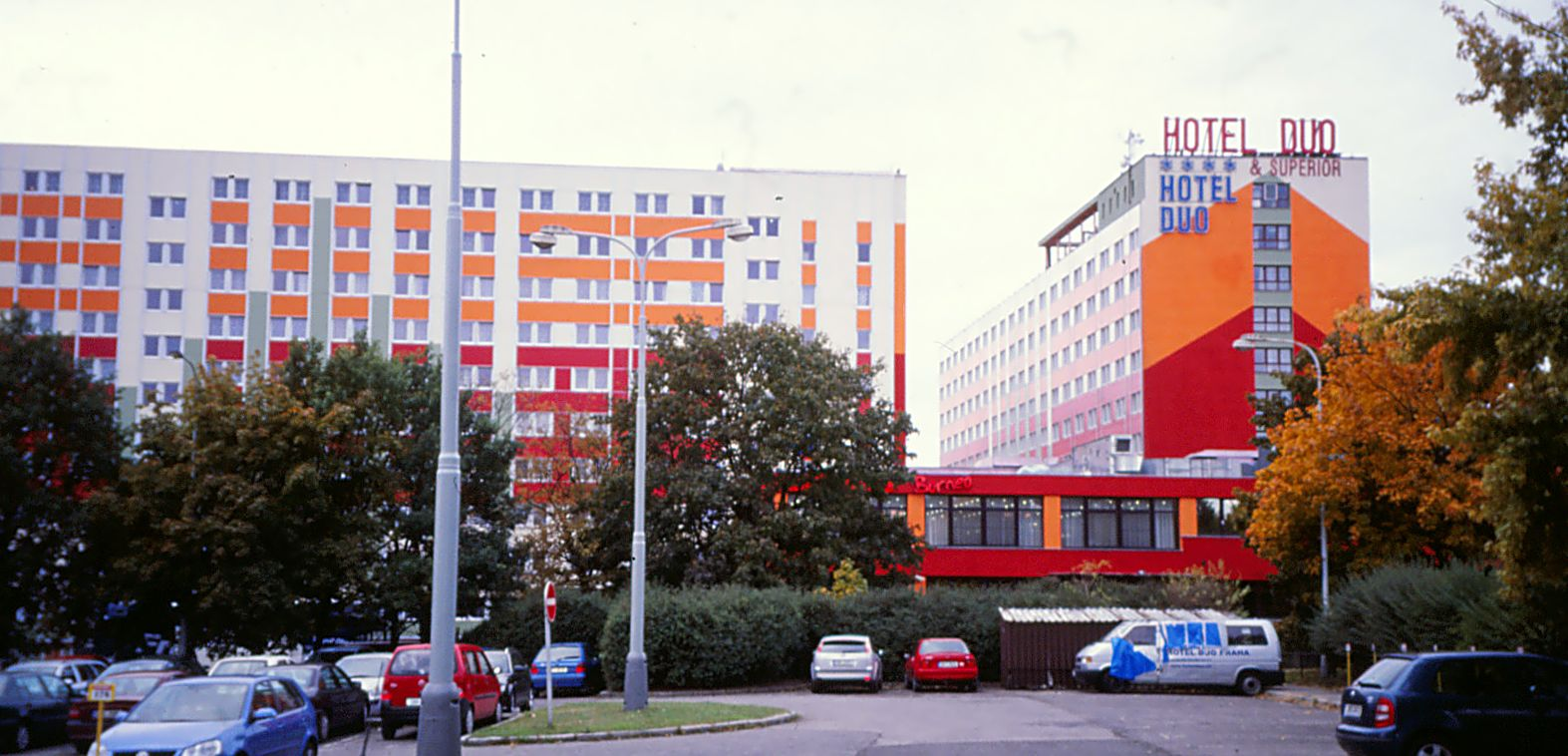 Totel Duo in Prague. October 2, 2008.